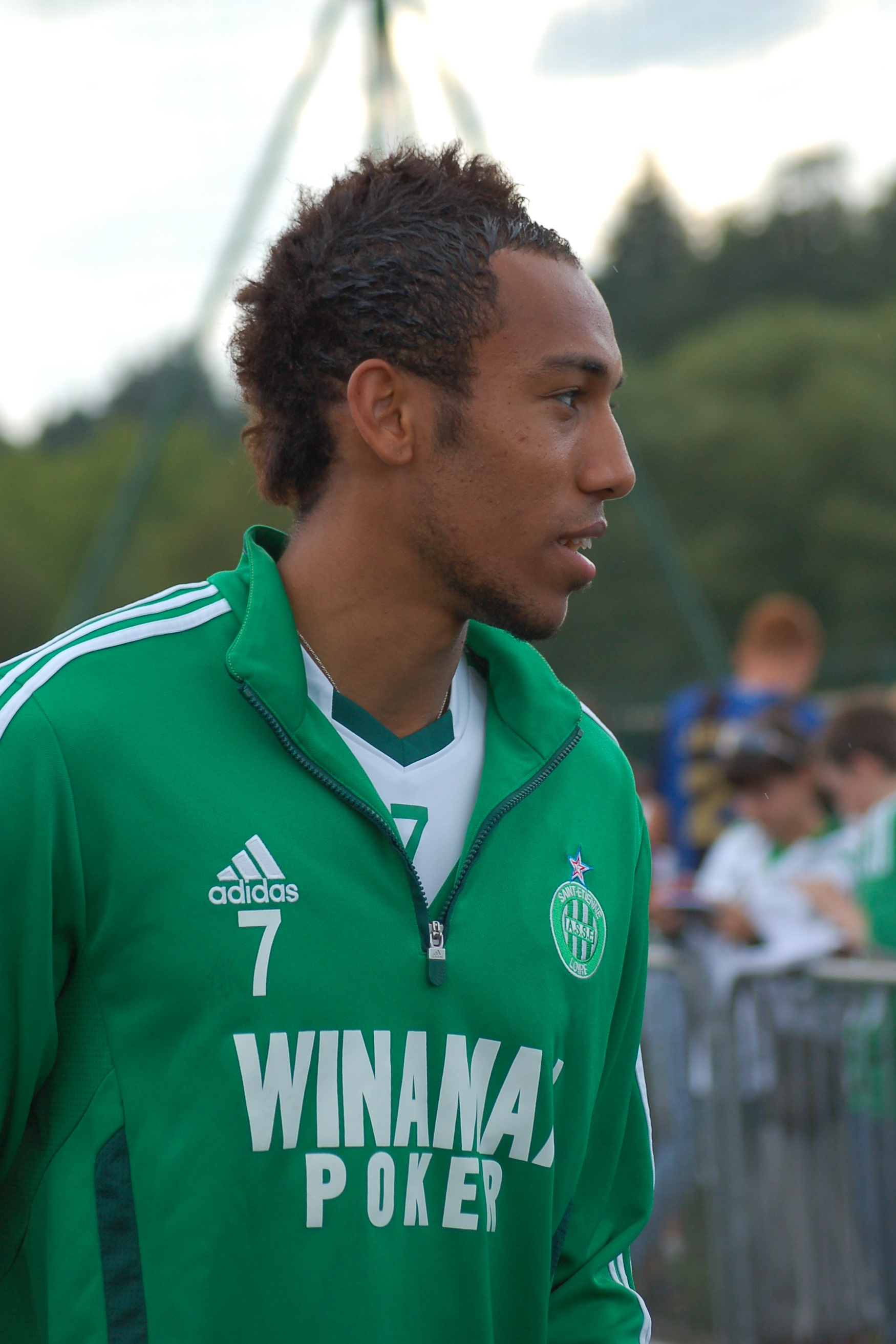 Football player Pierre-Emerick Aubameyang training with AS Saint-Etienne, on August 3rd, 2011 (L'Etrat, France).